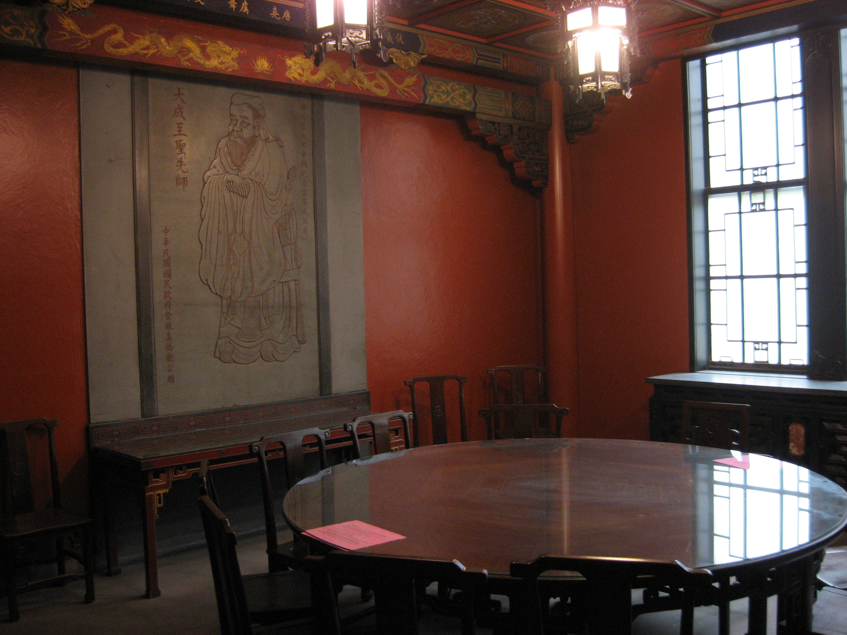 Chinese Nationality Room of the Nationality Rooms at the University of Pittsburgh's Cathedral of Learning